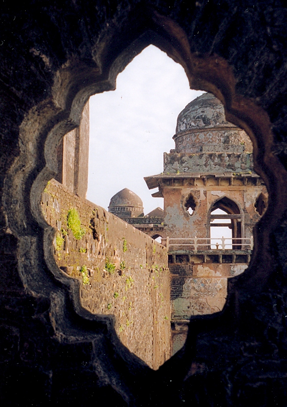 Jahaz Mahal, Mandu, Madhya Pradesh, India.